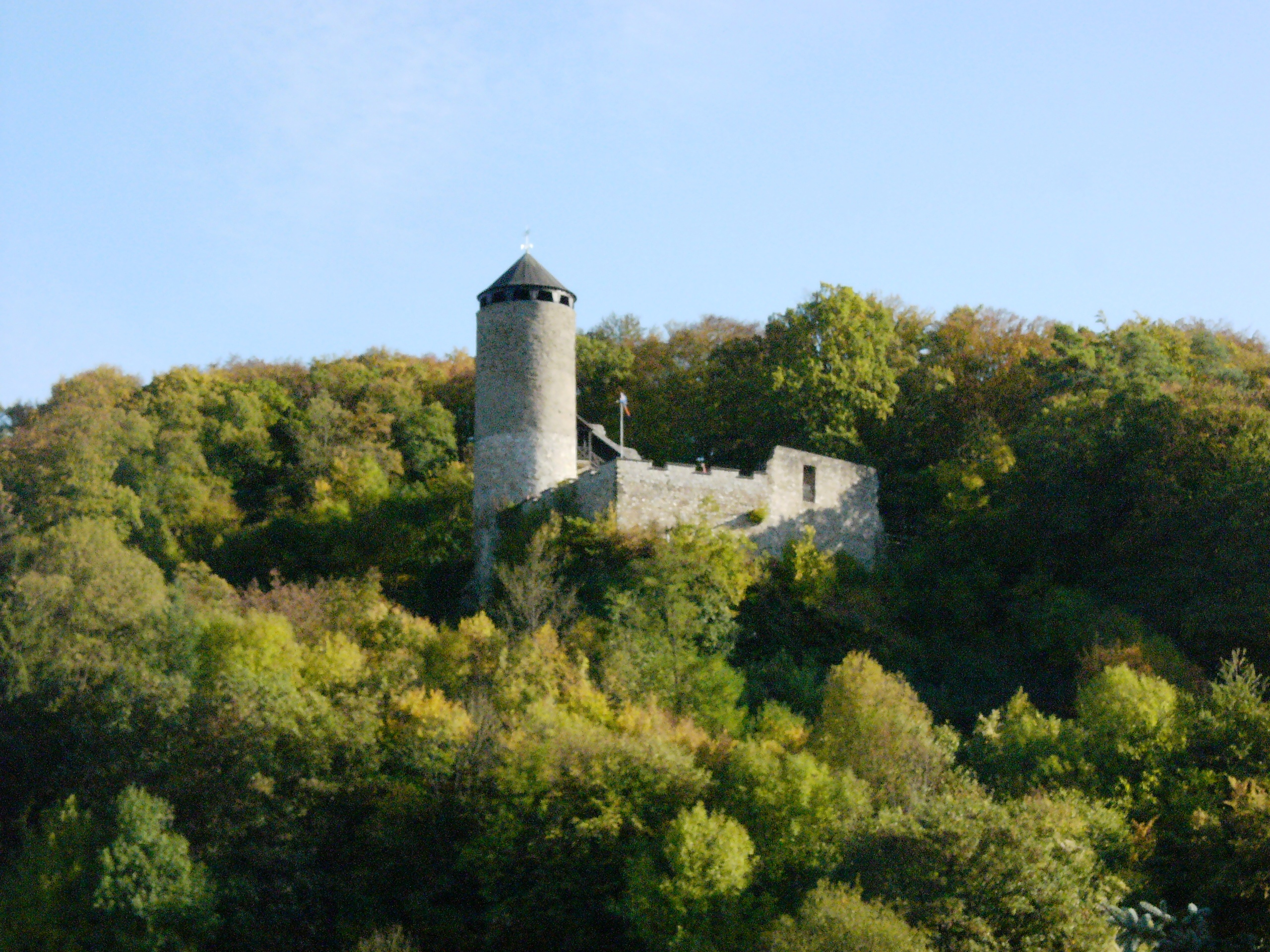 Castle of Philippstein (near the city of Braunfels, district Lahn-Dill)